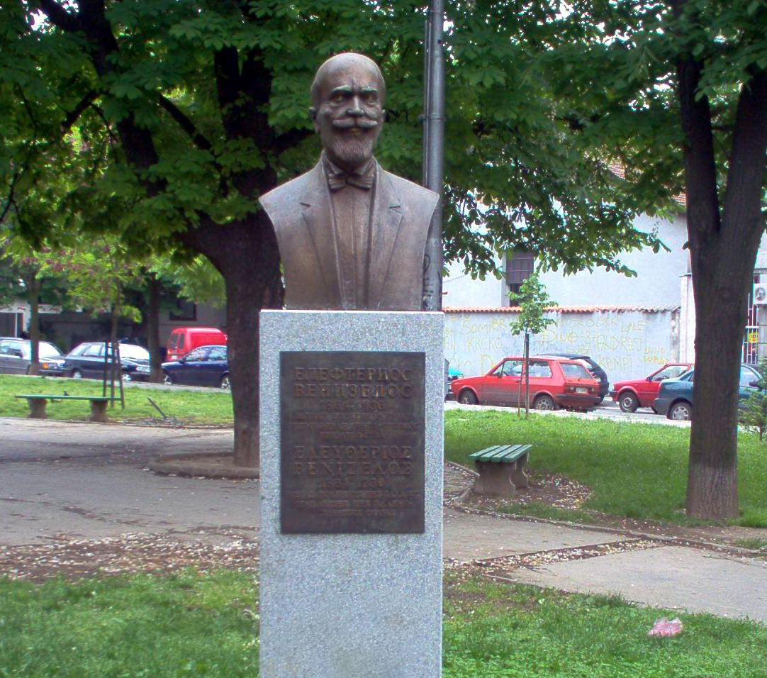 Bust of Eleftherios Venizelos in Belgrade